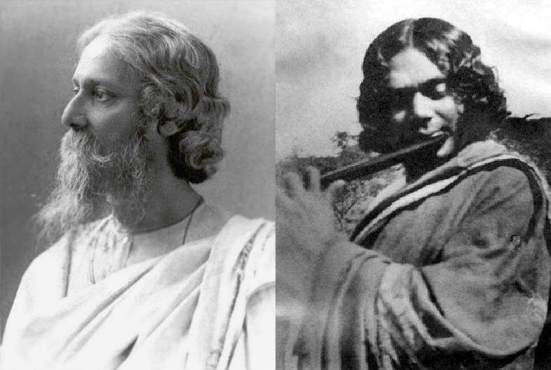 Merger of Tagore and Nazrul portraits